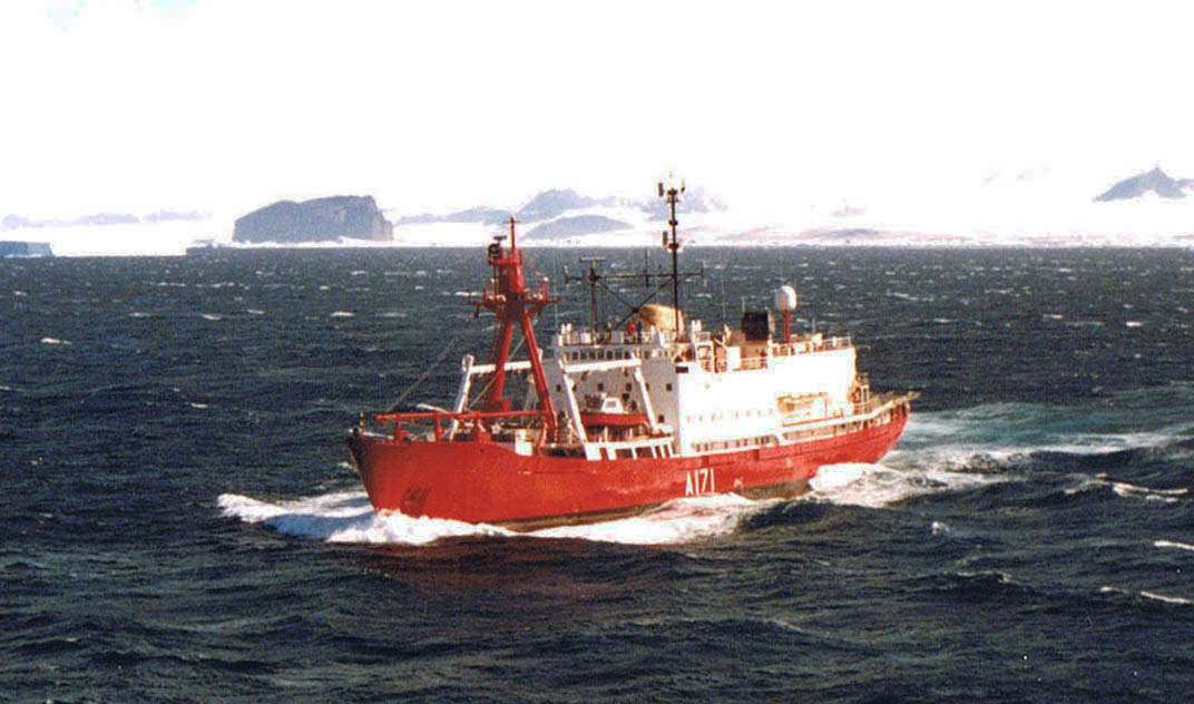 Icebreaker HMS Endurance (A-171)